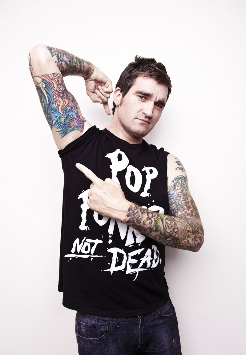 Promotional shot of New Found Glory frontman Jordan Pundik in 2010